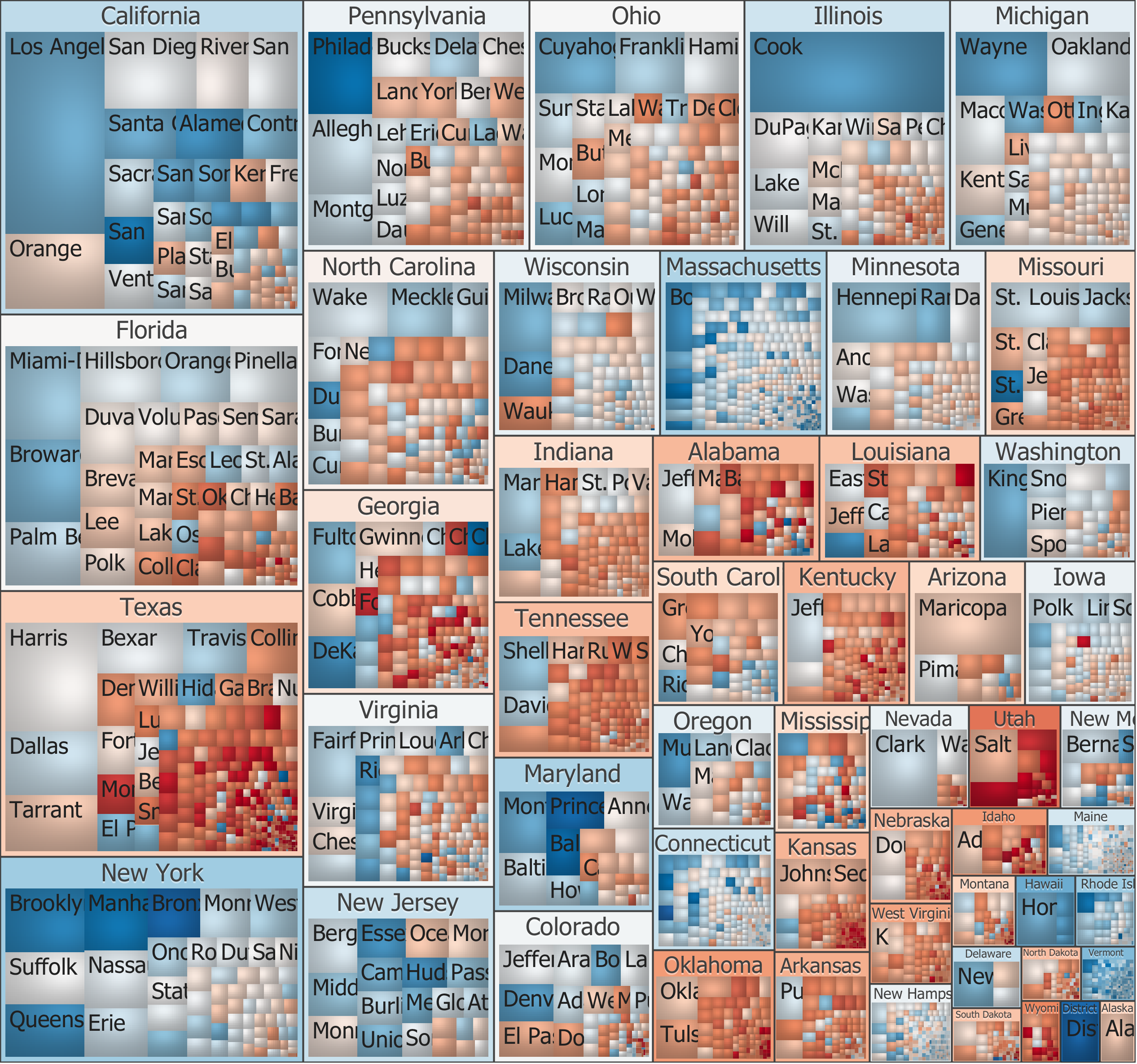 Treemap of the US Presidential Elections of 2012 using the number of ballots received per county and state to calculate the area and the share of votes for the predominant recipient to determine the color (with Obama in blue and Romney in red). Data source: Macrofocus TreeMap (